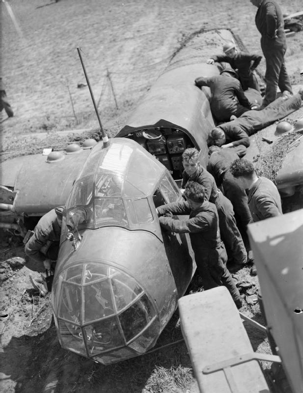 Royal Air Force- France, 1939-1940. Salvage crews dismantle a Junkers Ju 88, brought down during the the Luftwaffe's attacks on RAF airfields in France, between 10 and 12 May 1940.